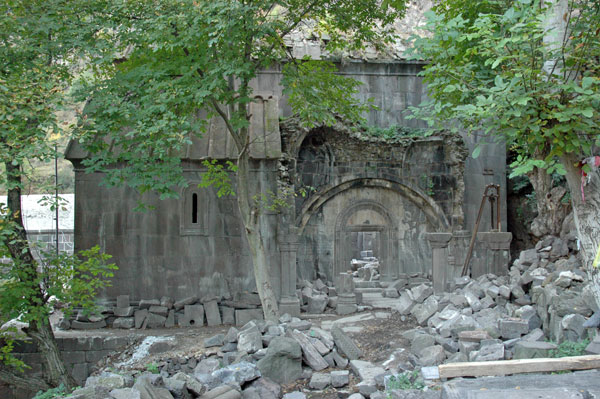 Kobair monastery. Armenia